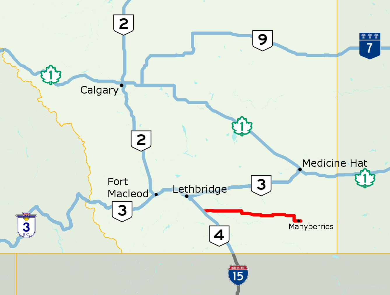 OpenStreetMap of Highway 61 in southern Alberta.